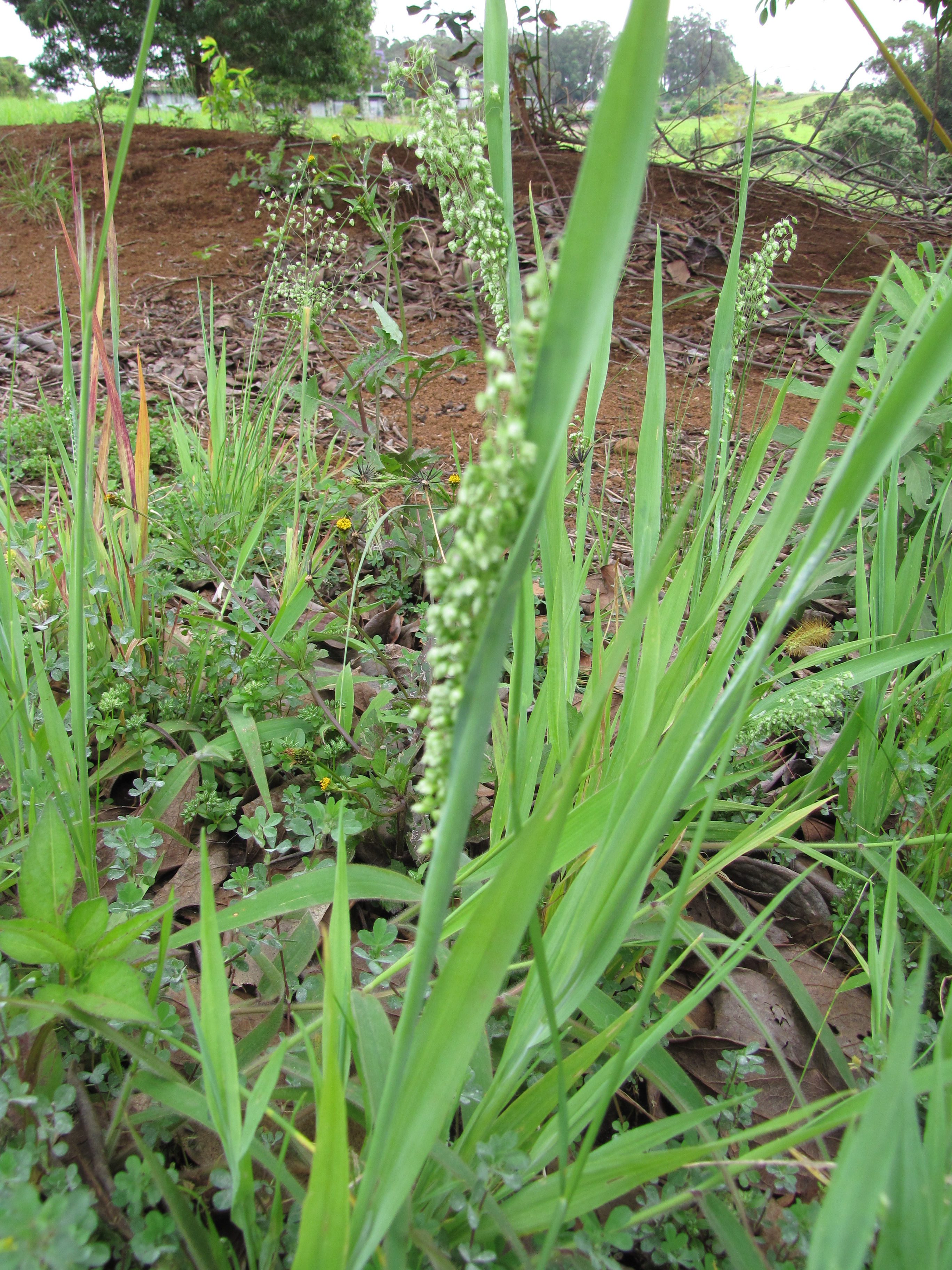 Briza minor (Little quaking grass) Fruiting habit at Olinda, Maui, Hawaii. April 12, 2011 #110412-5157 Image Use Policy